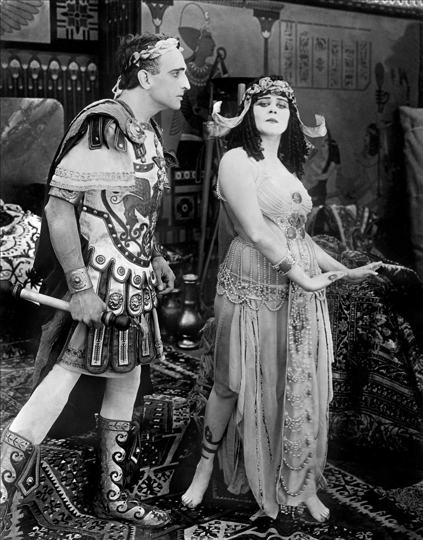 Theda Bara as Cleopatra and Fritz Leiber as Caesar (lost film Cleopatra, 1917)